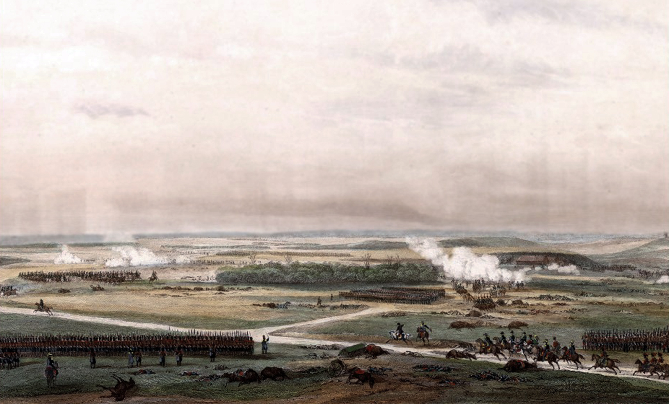 Jung Theodore. Battaille de Craonne